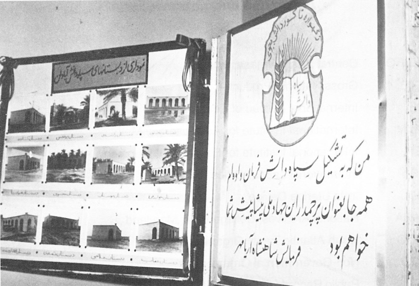 Farman of Shah Iran Mohammad Reza Pahlavi for Literacy Corps